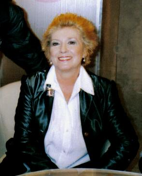 Actress Emilia Krakowska.